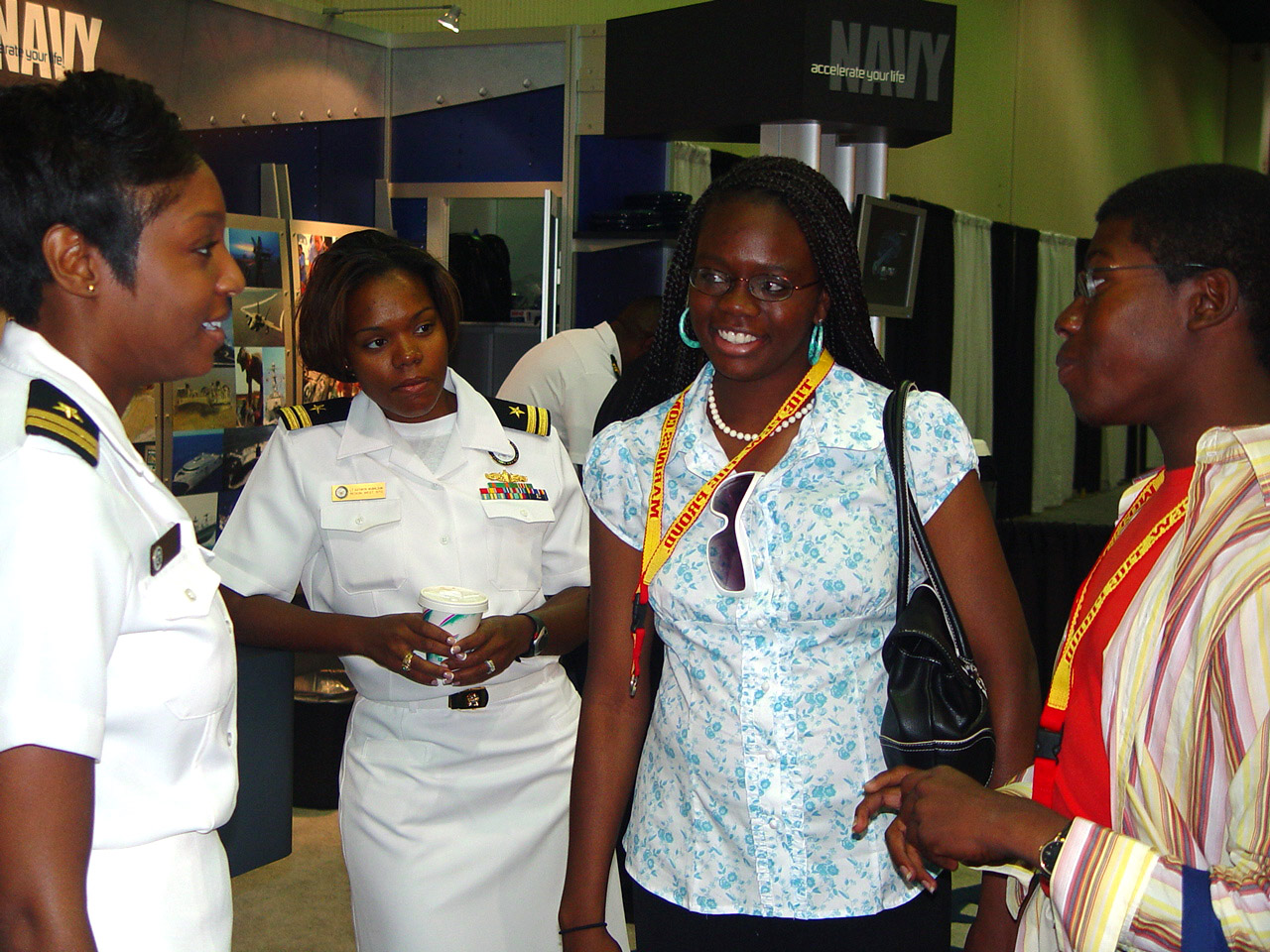 DETROIT (July 7, 2007) - Lt. Ladonna Gordon (left), and Lt. Kathryn S. Wijnaldum, Recruiters in the Detroit area, talk with two high-school seniors at the 98th National Association for the Advancement of Colored People (NAACP) Convention. The NAACP convention coincided with Navy Week Detroit July 4-15. The week is one of 26 Navy Weeks planned across America in 2007. Navy Weeks are designed to show Americans the investment they have made in their Navy and increase awareness in cities that do not have a significant Navy presence. U.S. Navy photo by Chief Mass Communication Specialist Lucy M. Quinn (RELEASED)